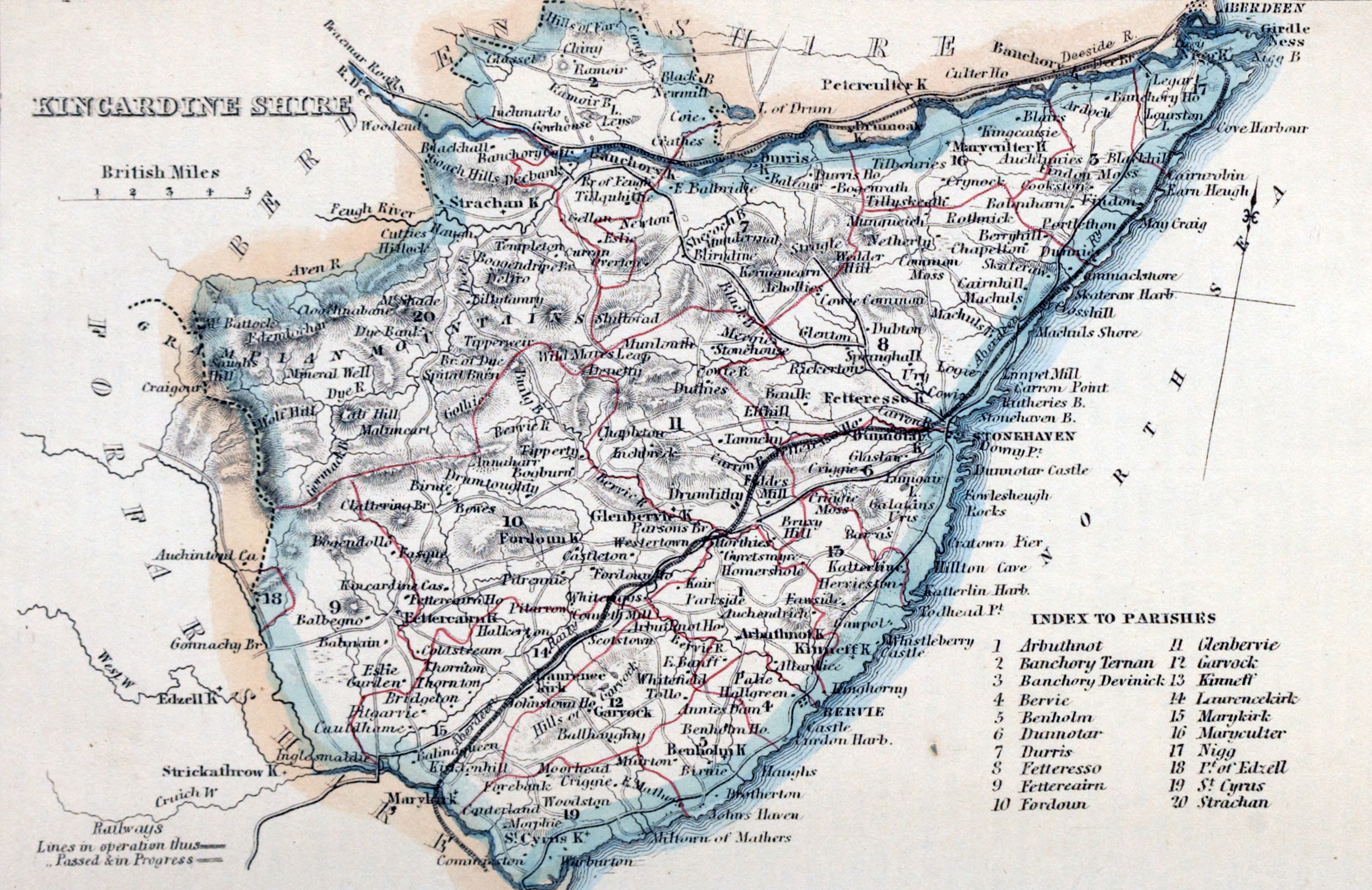 The Imperial gazetteer of Scotland. VOL.II. edited by Rev. John Marius Wilson. c.1854.